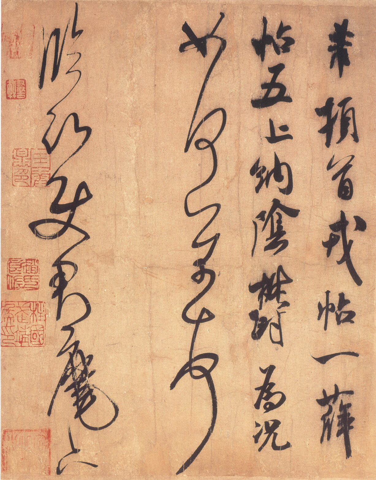 Mi Fu's Chinese calligraphy, Song Dynasty, Jiangsu province.